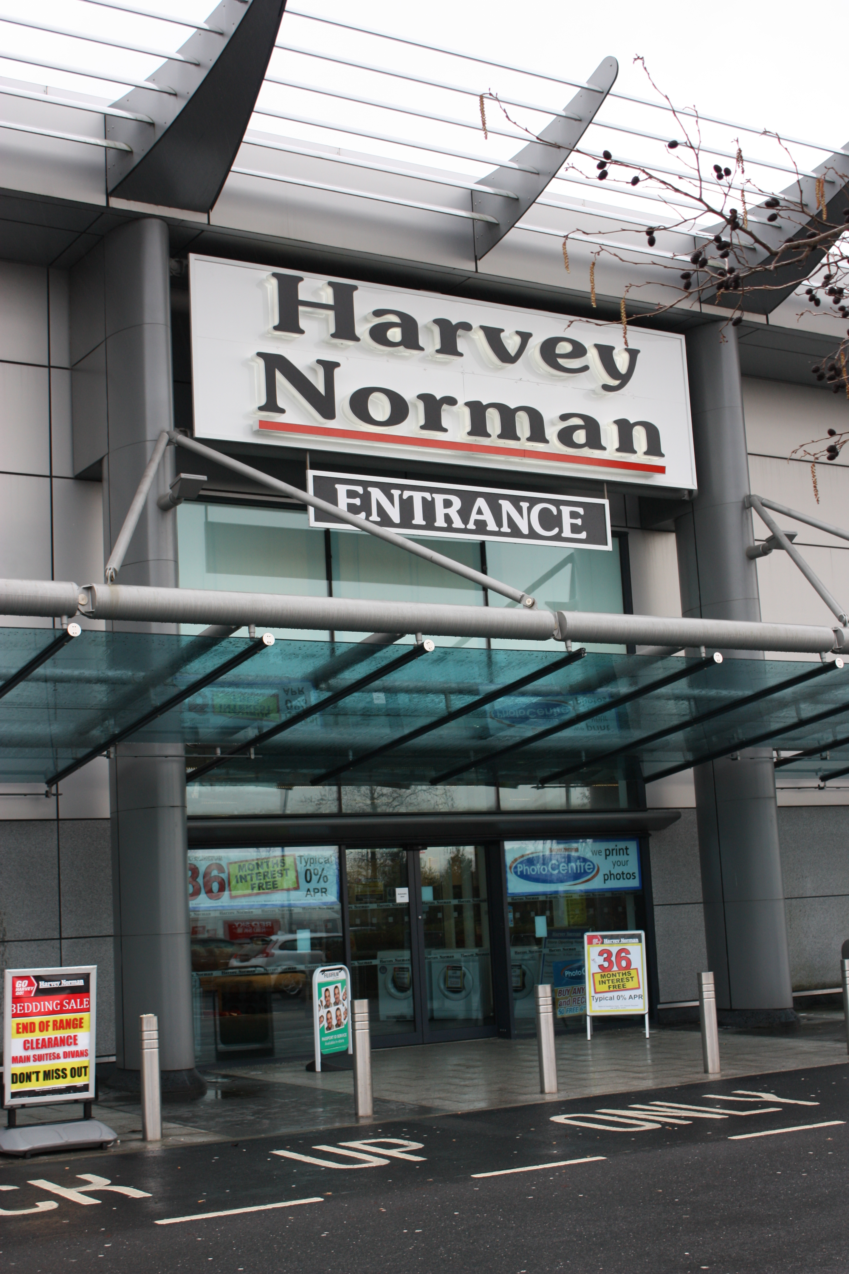 Harvey Norman, Holywood Exchange, Airport Road West, Belfast, Northern Ireland, February 2010